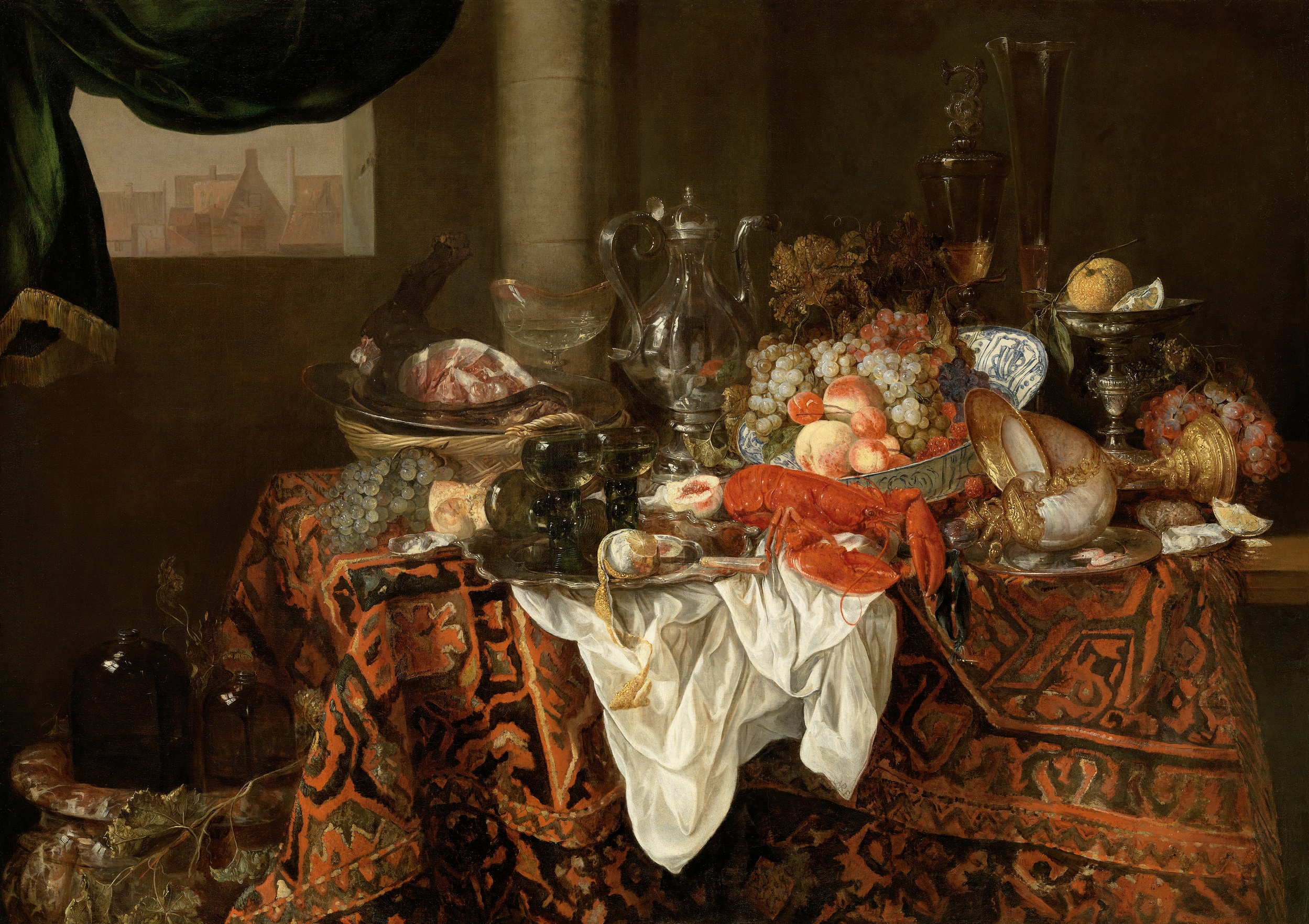 Banquet Still Life by Abraham van Beyeren, Oil on canvas, 118.2 x 167.6 cm, Hohenbuchau Collection, on permanent loan to Liechtenstein, The Princely Collections, Vienna